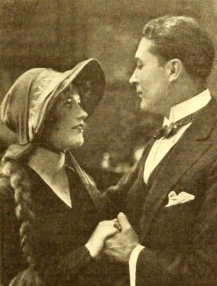 Still from the American film The Belle of New York (1919) with Marion Davies and Raymond Bloomer, on page 740 of the February 8, 1919 Moving Picture World.